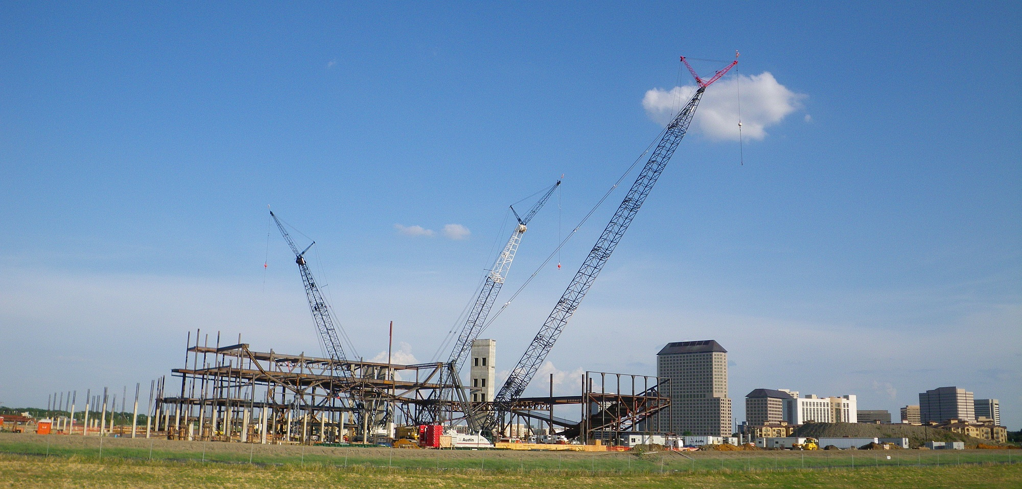 Site preparation and construction of the Irving Convention Center and Irving Convention Center Station, part of the Dallas Area Rapid Transit (DART) Orange Line expansion. This station is scheduled to open as part of the initial 14 miles oscheduled for completion in December, 2011. This project is funded by DART with assistance from the Federal Department of Transportation, as indicated by a sign appear on the construction site that does not appear within this photograph.